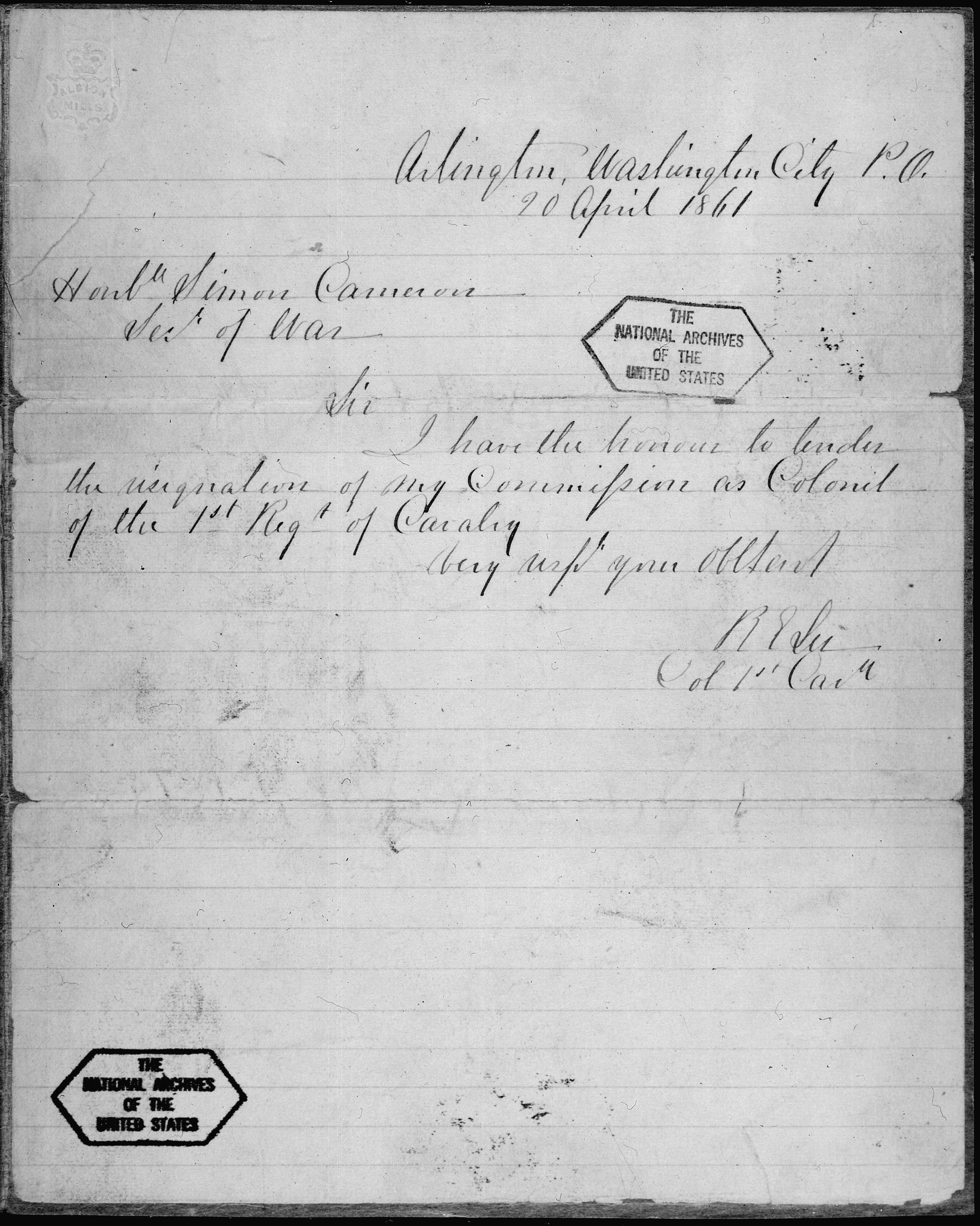 Scope and content: On the eve of the Civil War, when offered leadership of the U.S. Army, Lee refused, citing loyalty to his home state of Virginia. General notes: Exhibit no. 624.0022. Exhibit History: "American Originals," December 1995 - June 1996, National Archives Rotunda, Washington, DC, Exhibit No. 624.0022. Civil War Exhibition, April 1995 - October 1995, Ronald Reagan Library, Simi Valley, CA, Exhibit No. 1177.0002. Lincoln Sesquicentennial Exhibition, 1959, National Archives, Washington, DC.